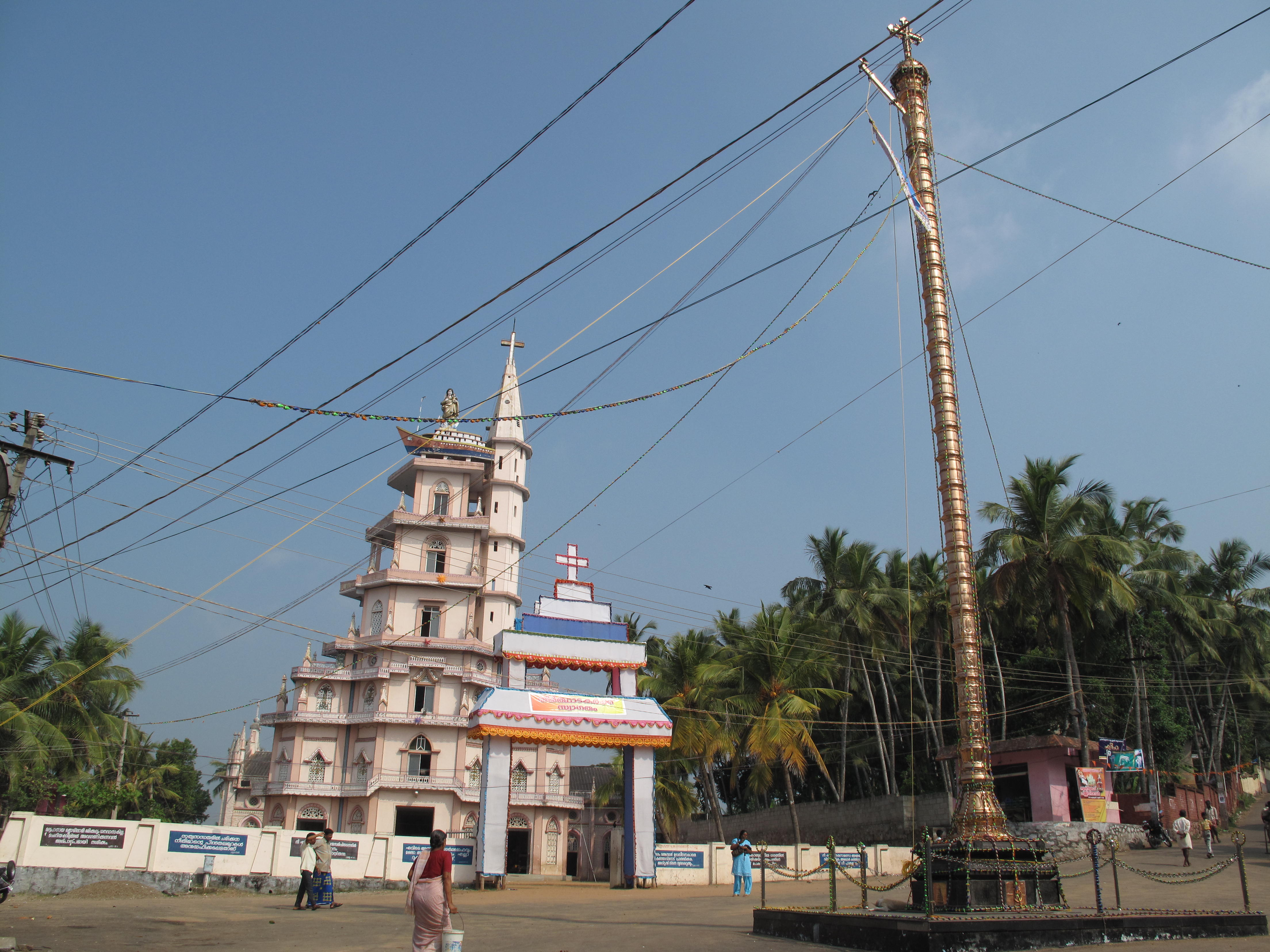 Vizhinjam, Our Laday of Good Voyage Church